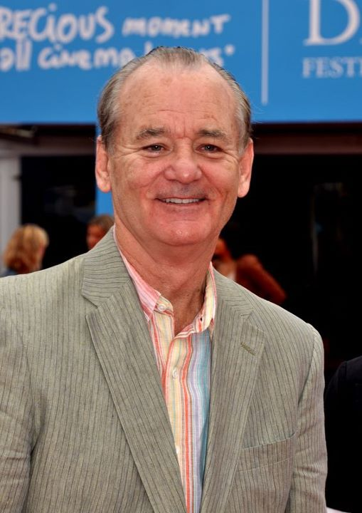 Bill Murray at the Deauville American film festival